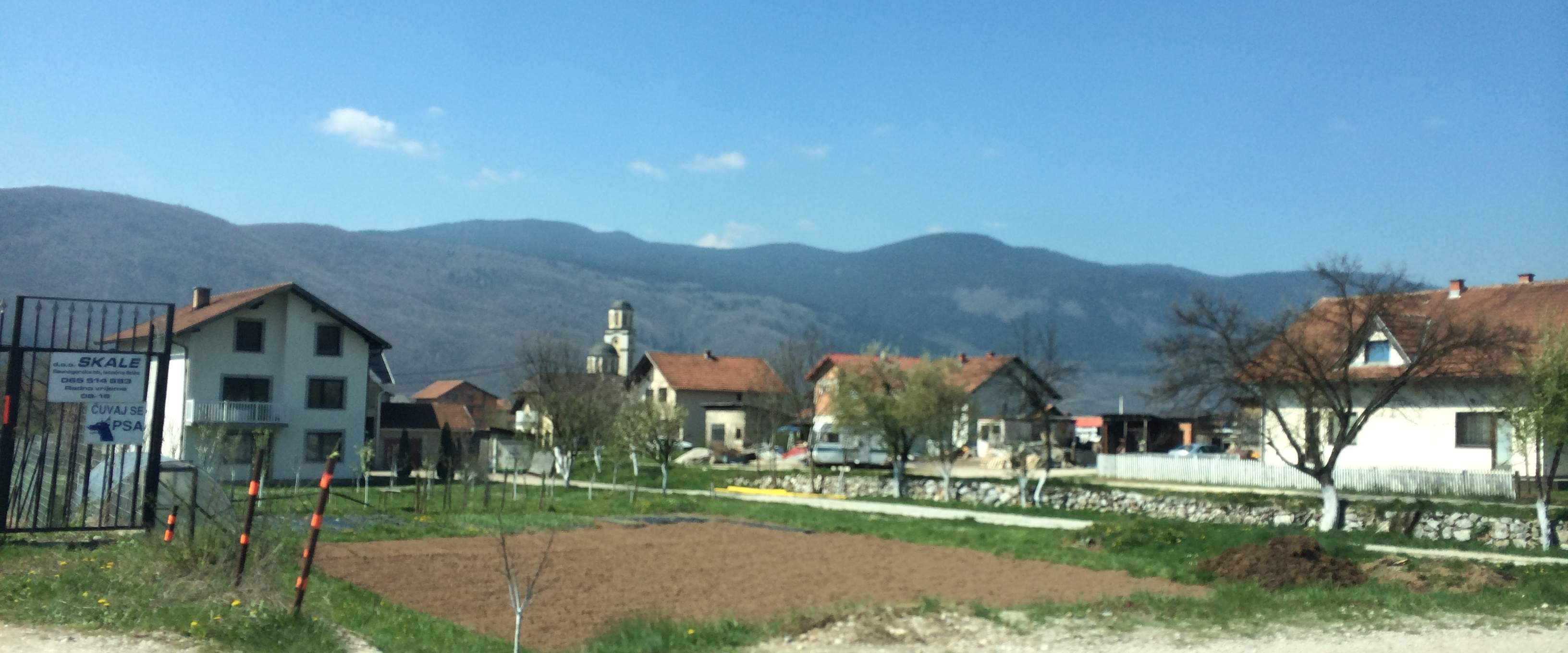 Image from the municipality of East Ilidza (Istočna Ilidža), Republika Srpska, south of Sarajevo in Bosnia and Hercegovina.